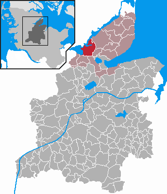 Locator maps of municipalities in Schleswig-Holstein - District Rendsburg-Eckernförde